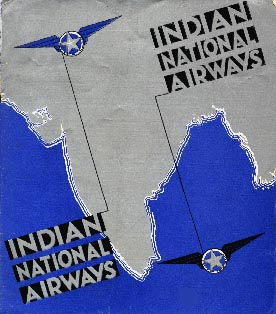 Airline time table of Indian National Airways as used in 1933.